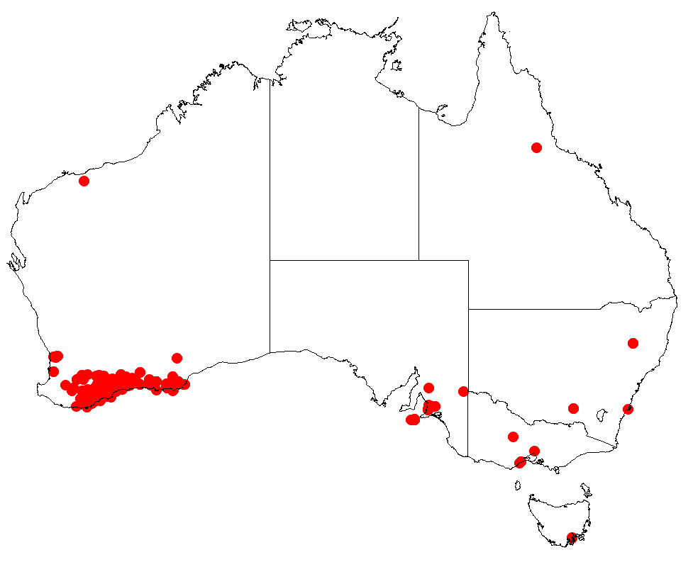 Hakea laurina Occurrence data downloaded from Australasian Virtual Herbarium on 22 November 2018 using